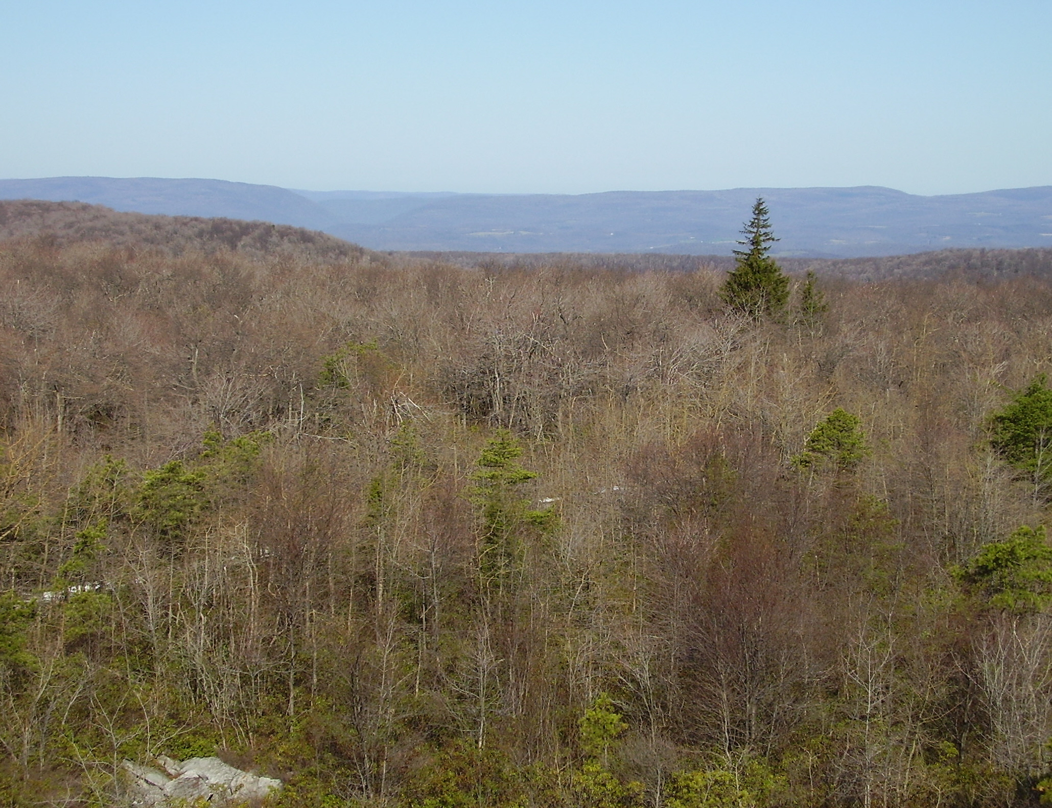 View from Negro Mountain (Mt. Davis highpoint) looking towards Laurel Ridge to the west.